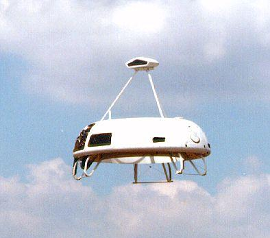 Cypher UAV(Unmanned Aerial Vehicle), In the late 1980s, Sikorsky Aircraft flew a small UAV named "Cypher", with coaxial rotors inside a torus-shaped airframe. The torus shroud improved handling safety and helped increase lift. The first proof-of-concept Cypher was 1.75 meters (5.75 feet) in diameter and 55 centimeters (1.8 feet) tall, weighed 20 kilograms (43 pounds), and was first flown in the summer of 1988. This design was powered by a four-stroke, 2.85 kW (3.8 hp) engine and was mounted on a truck for forward-flight tests. It led to a true flight prototype Cypher that weighed 110 kilograms (240 pounds), had a diameter of 1.9 meters (6.2 feet) and was powered by a compact, 40 kW (53 hp) rotary engine. After an initial free flight in 1993, the Cypher prototype was used in flight tests and demonstrations through most of the 1990s, ultimately leading to a next-generation design, the Cypher II, which was a competitor in the United States Navy VT-UAV competition. The single prototype first flew in April 1992 and flew untethered in 1993. Since then, over 550 demonstration flights have been made for the US government. The Cypher can carry a sensor package on struts above its hull, or can transport loads weighing up to 50 lb (23 kg).